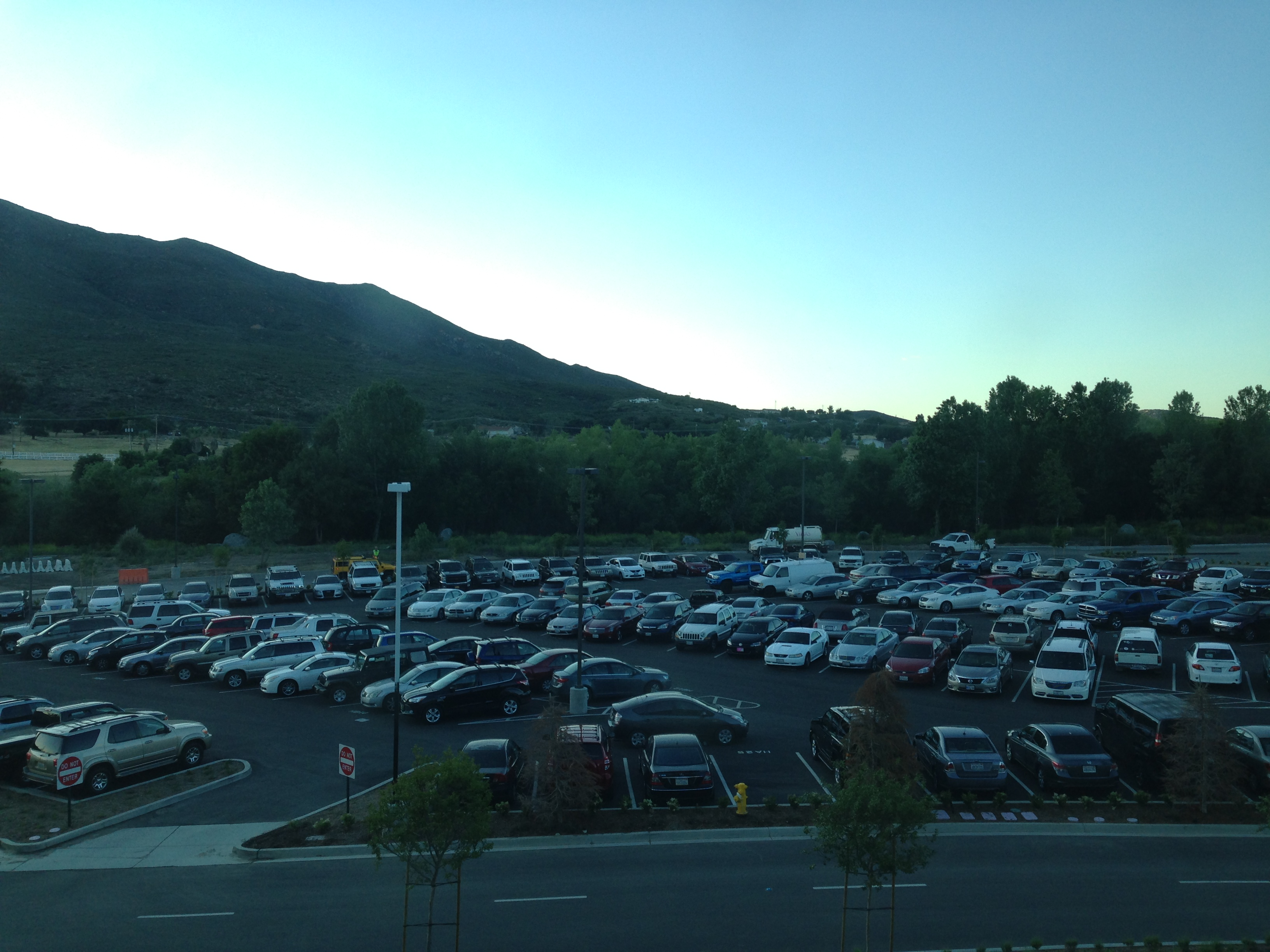 Parking lots in California